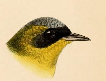 Black-lored Yellowthroat